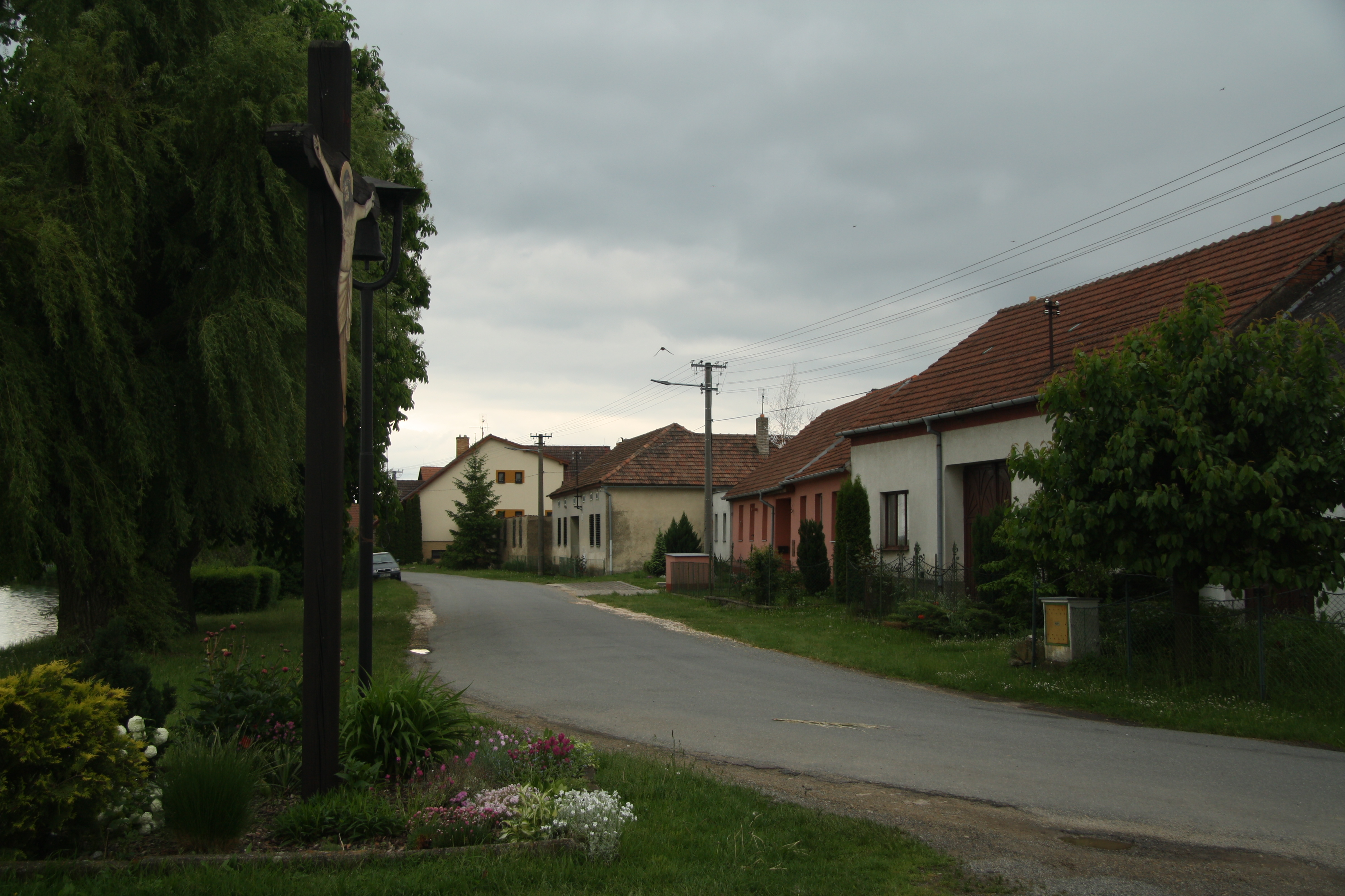 Center of Lažínky, Moravské Budějovice, Třebíč District.